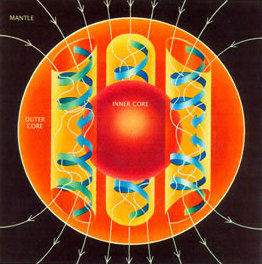 A schematic illustrating the relationship between motion of conducting fluid, organized into rolls by the Coriolis force, and the magnetic field the motion generates.